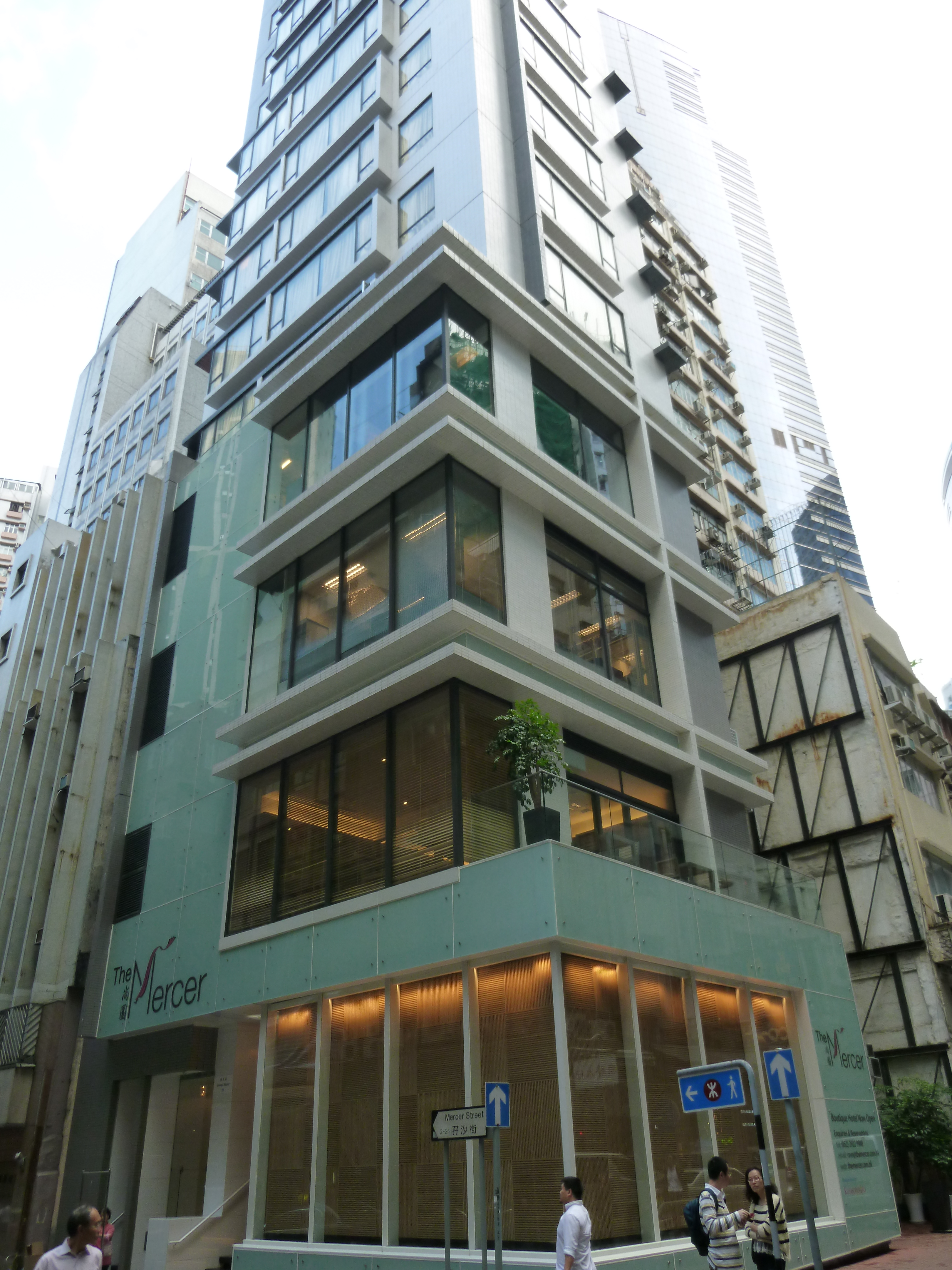 The Mercer (29 Jervois Street, Sheung Wan, Hong Kong)